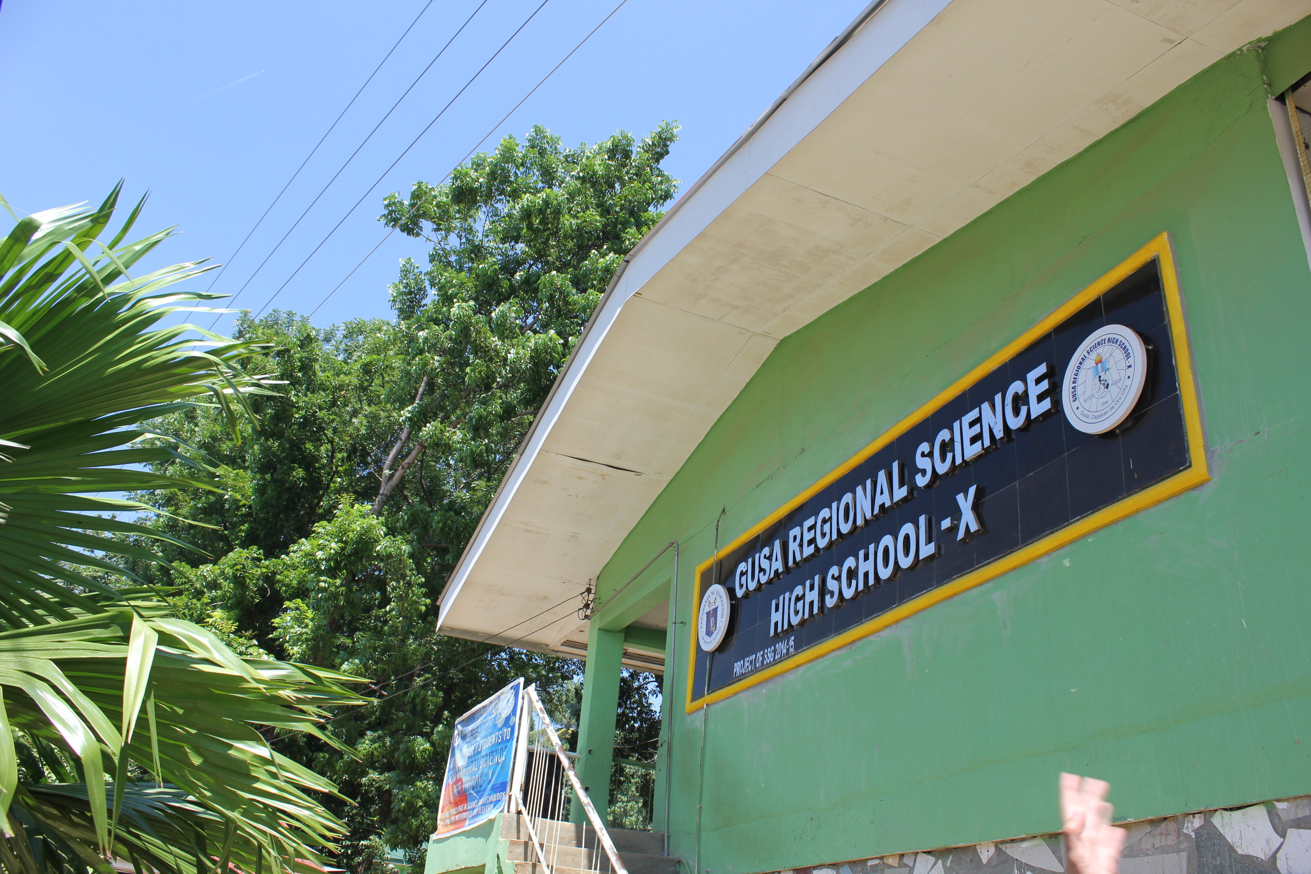 The outer facade of GRSHS-X facing the Gusa-Indahag Road.